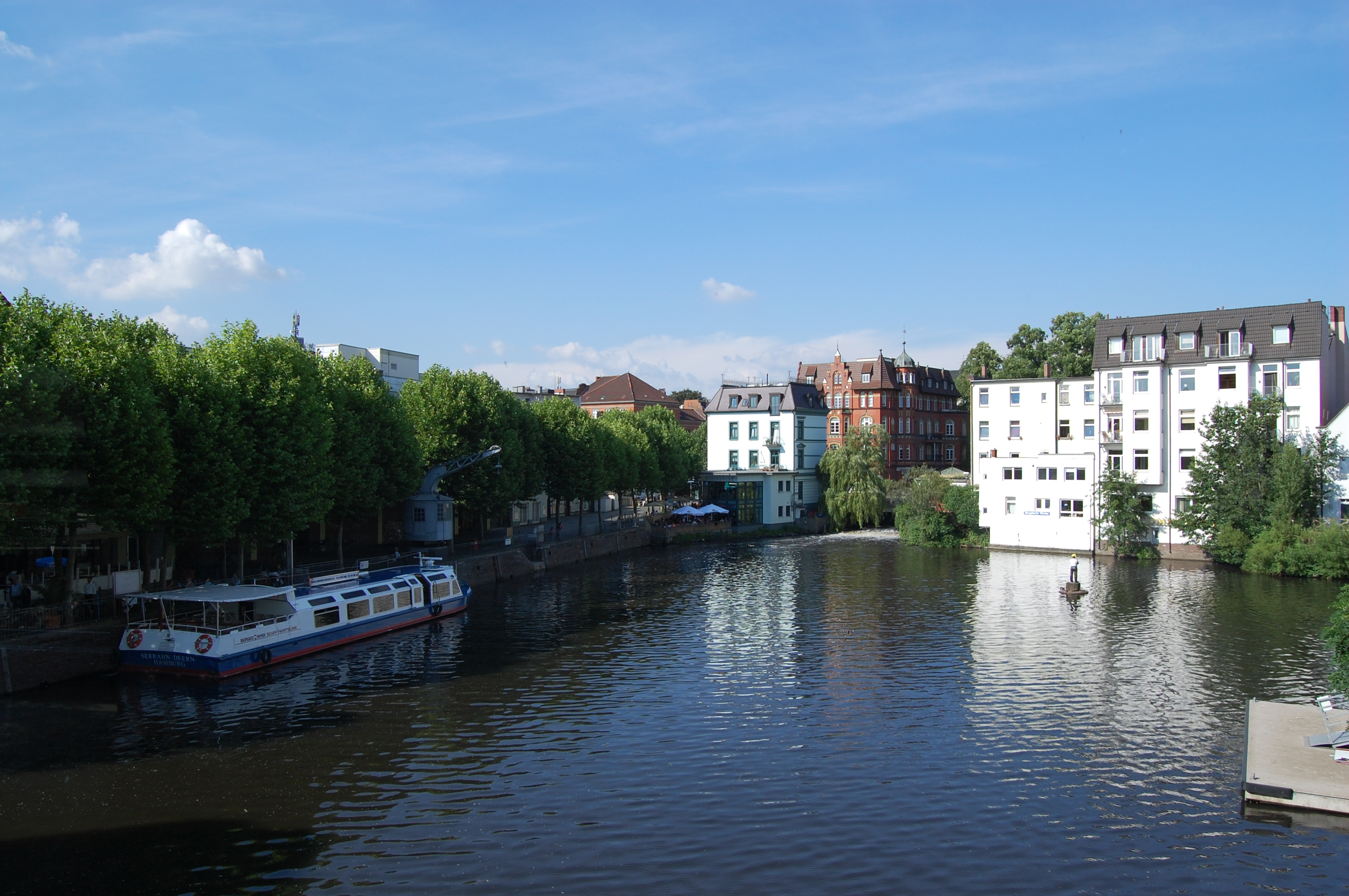 Der "Bergedorfer Hafen" an der Bille (Hamburg)